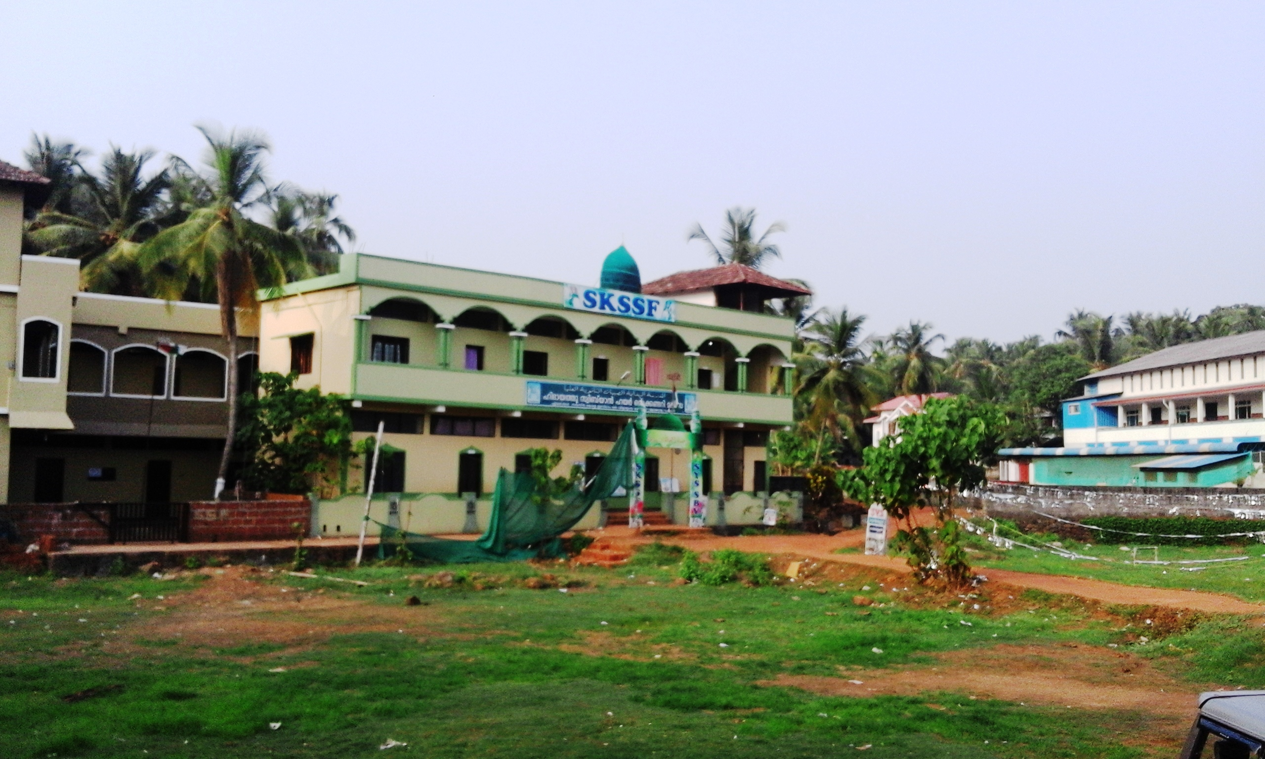 Pallikkal Bazar, Chelari, Malappuram Dt, Kerala, India.